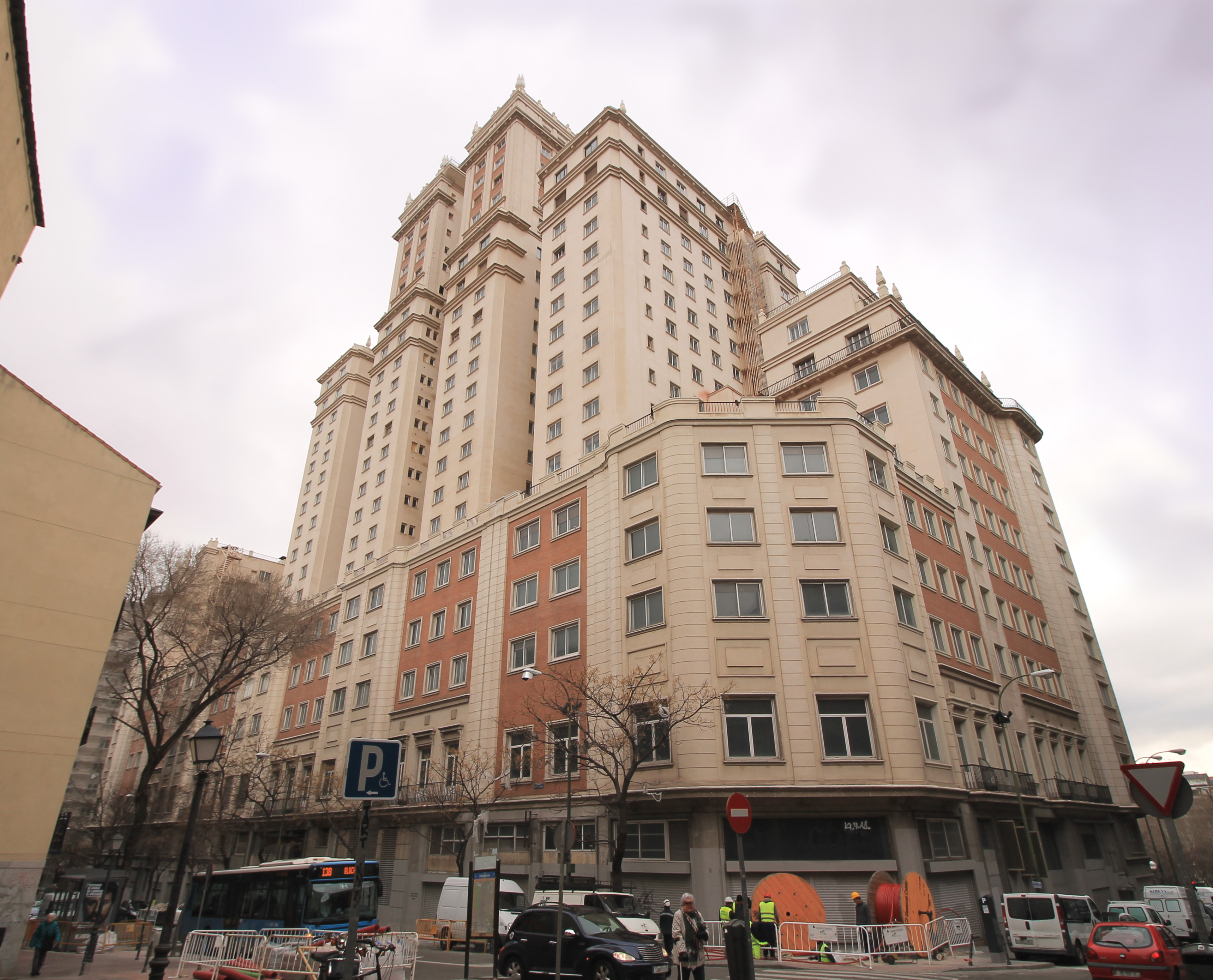 View of Edificio España in Madrid (Spain) from the north angle.